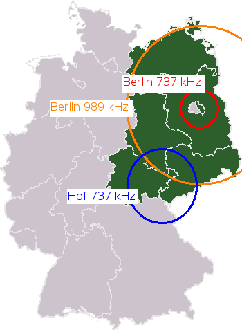 The carte represents tha audibility of RIAS in 1955. Data